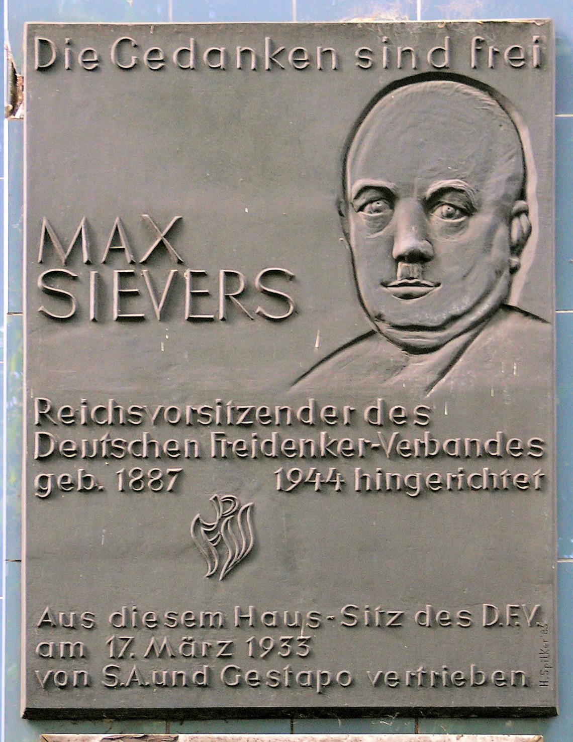 Memorial plaque, Max Sievers, Gneisenaustraße 41, Berlin-Kreuzberg, Germany